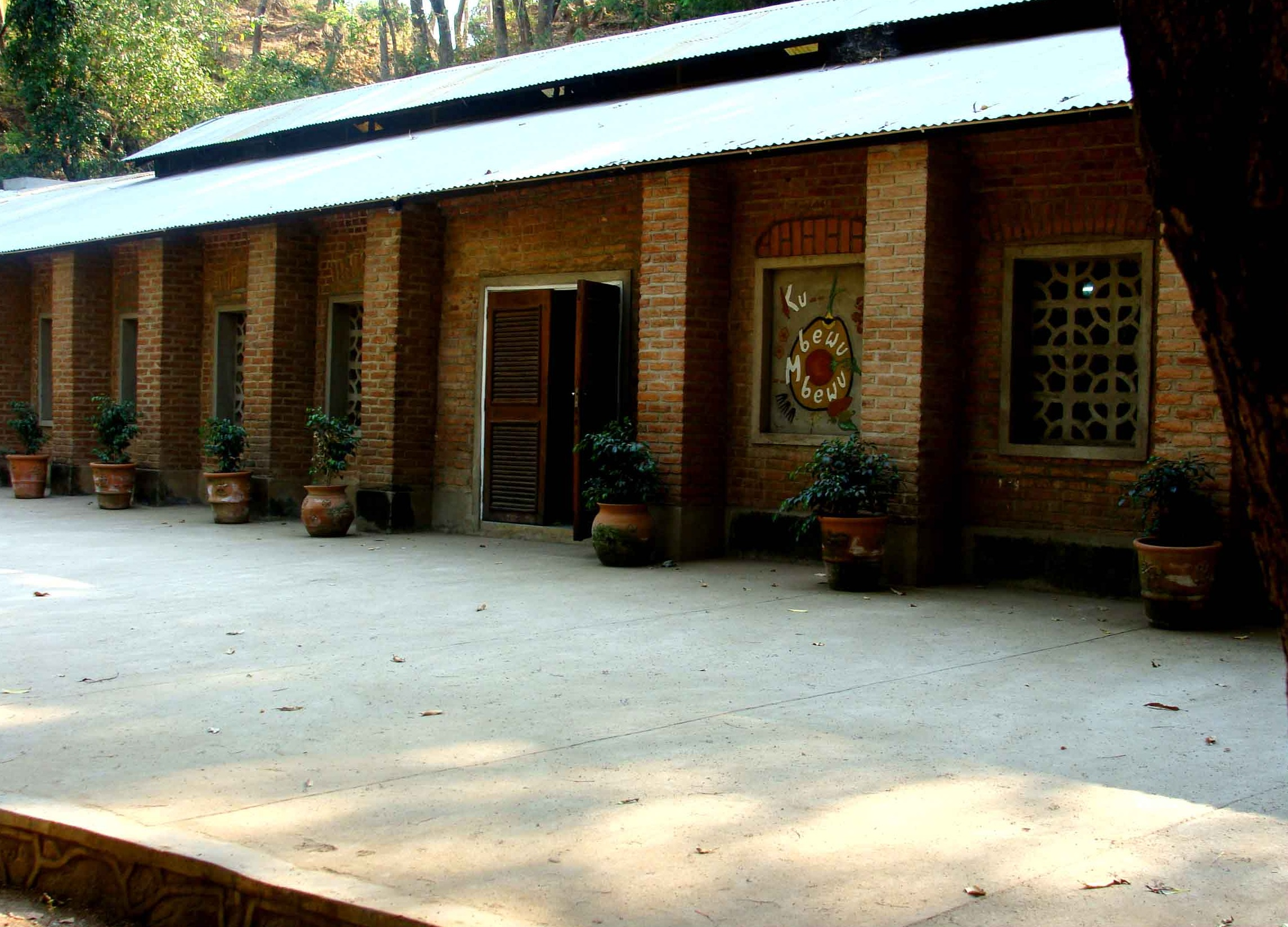 Kumbewu aussen